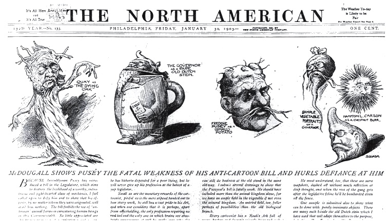 "McDougall shows Pusey the fatal weakness of his anti-cartoon bill and hurls defiance at him"